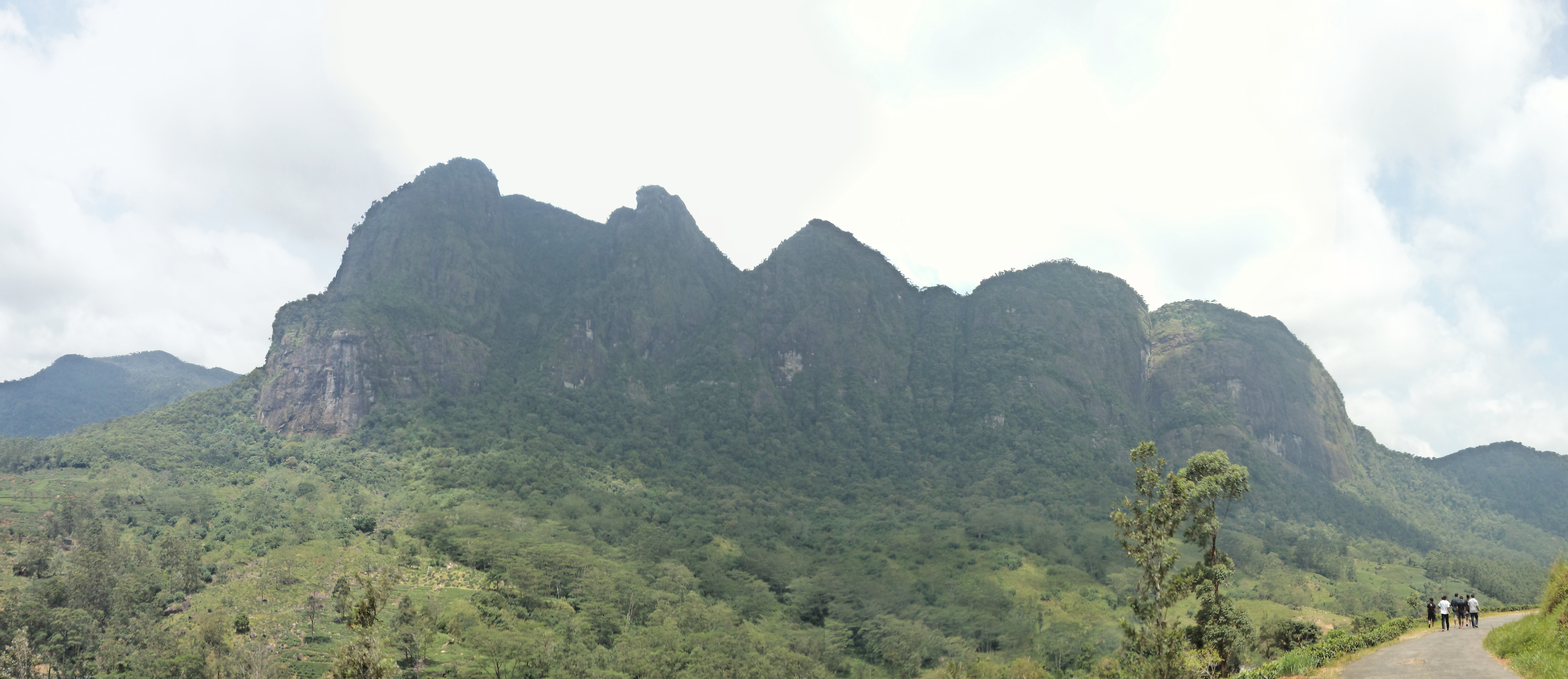 Virgin Hills (Saptha Kanya) mountain range, Sri Lanka.